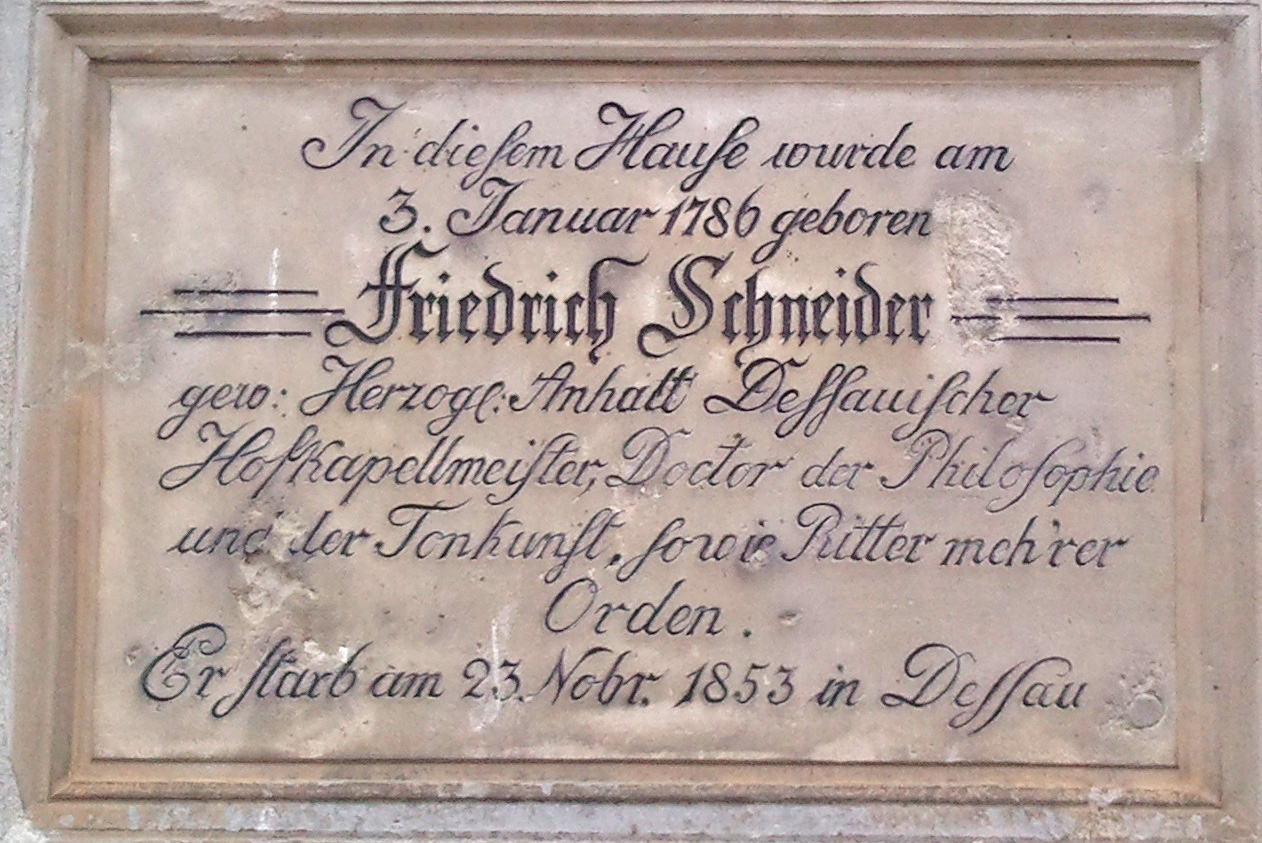 Memorial tablet at Schneider's Birthplace